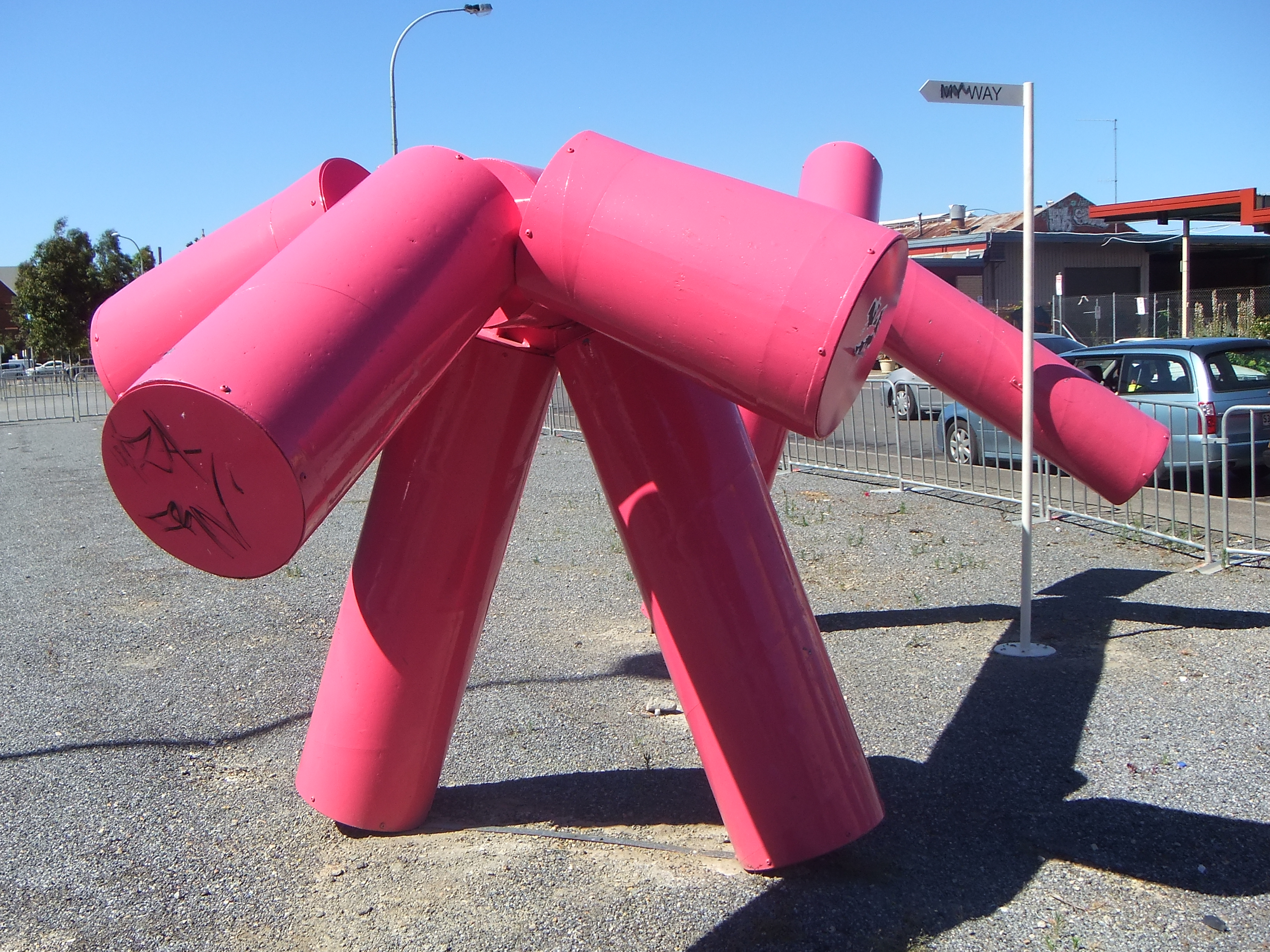 "Old Dog" sculpture by Craige Andrae. Located on the corner of Franklin and Bowen streets in Adelaide, just outside of the Adelaide Central Bus Station.